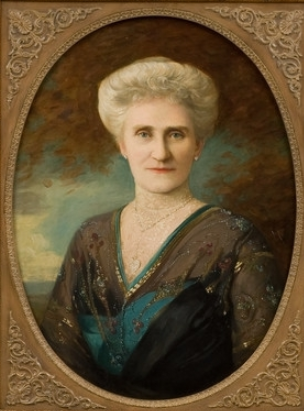 Category:paintingsObject name:PORTRAIT OF ELLA LETITIA MERRIWEATHER POSTMade from:Oil on canvasMade in:New York, USADate made:1913Size:71.1 × 52.7 cm (28 × 20 3/4 in.) Detailed information for this item Catalog number:51.150Class:PAINTINGSignature marks:SIGNATURE; DATE lower right (on Ella's left sleeve): Alphaeus P. Cole New York 1913Credit line:Bequest of Marjorie Merriweather Post, 1973